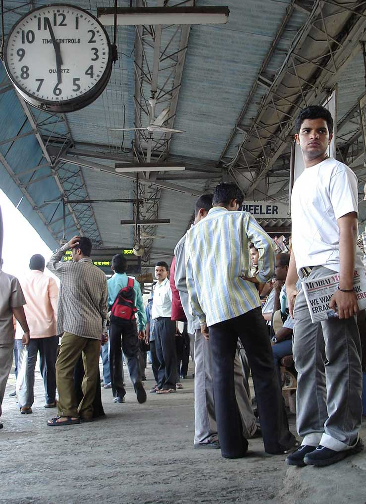 Commuters waiting for the 1800 local train on the Western line. Bandra Station